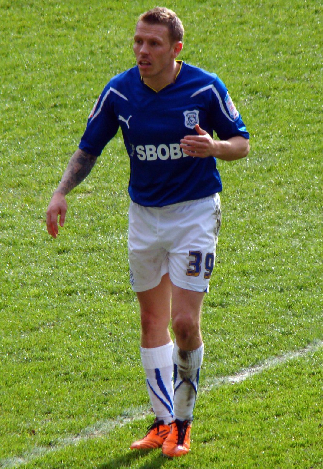 Craig Bellamy in Cardiff V Derby, Championship, Cardiff City Stadium, Cardiff, Wales